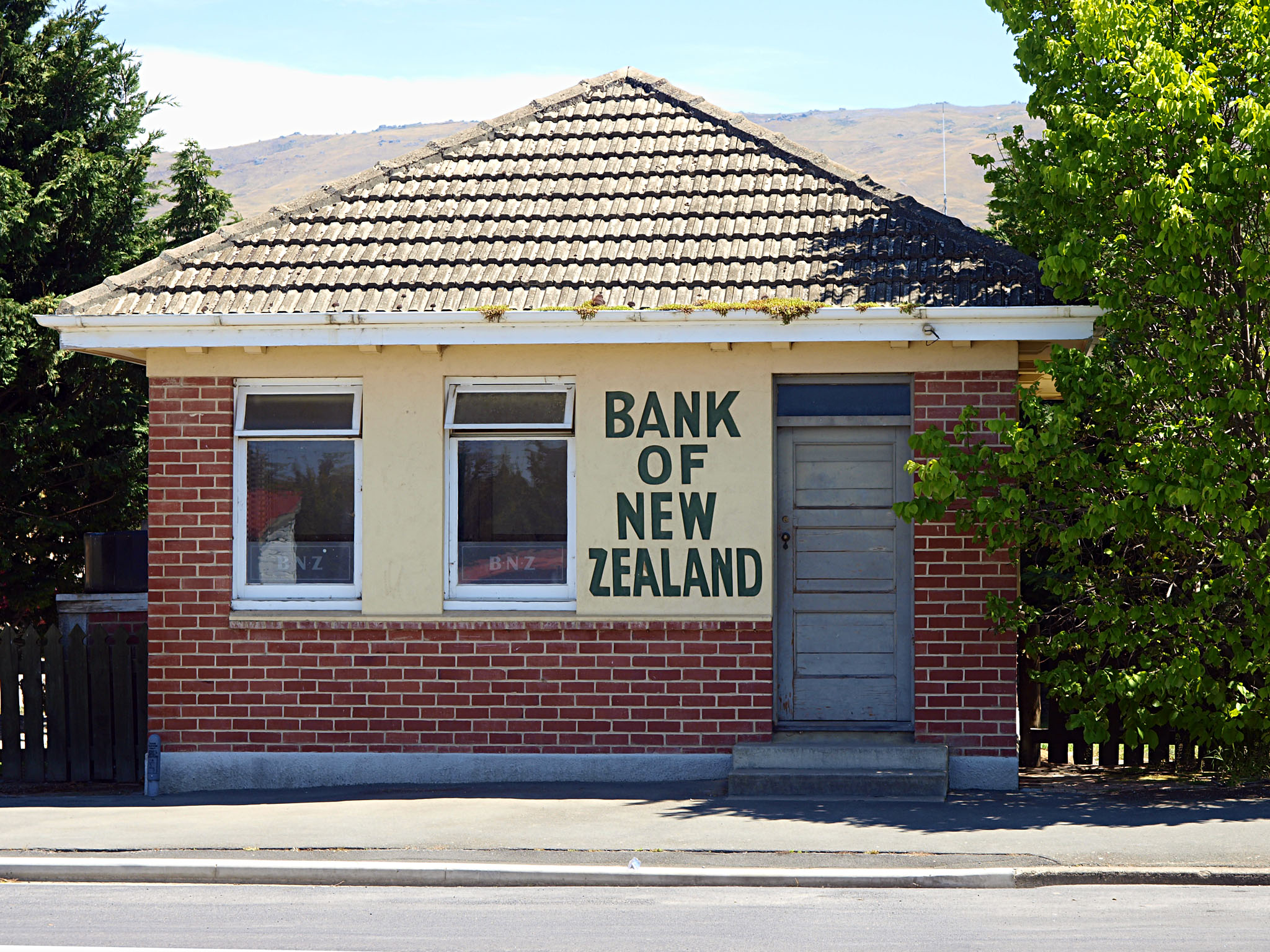 Bank of New Zealand Building in Middelmarch, New Zealand